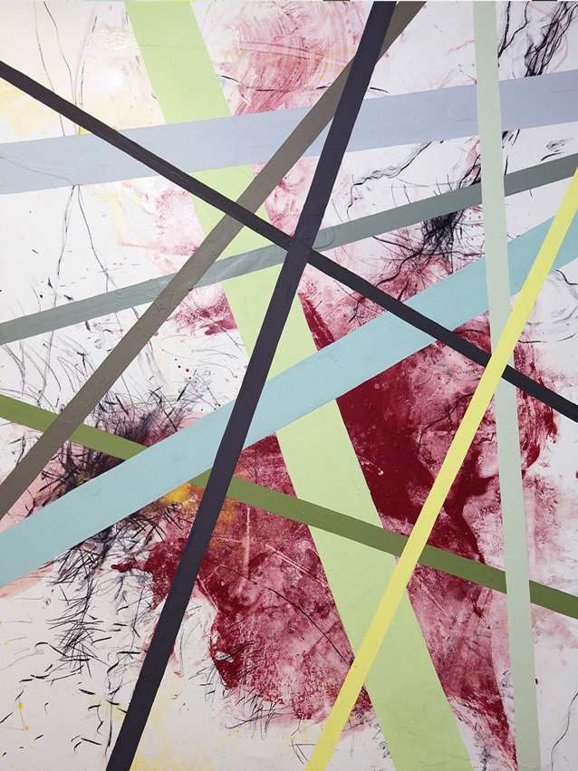 Thomas Steiner: OT., 160 x 120cm, 2013